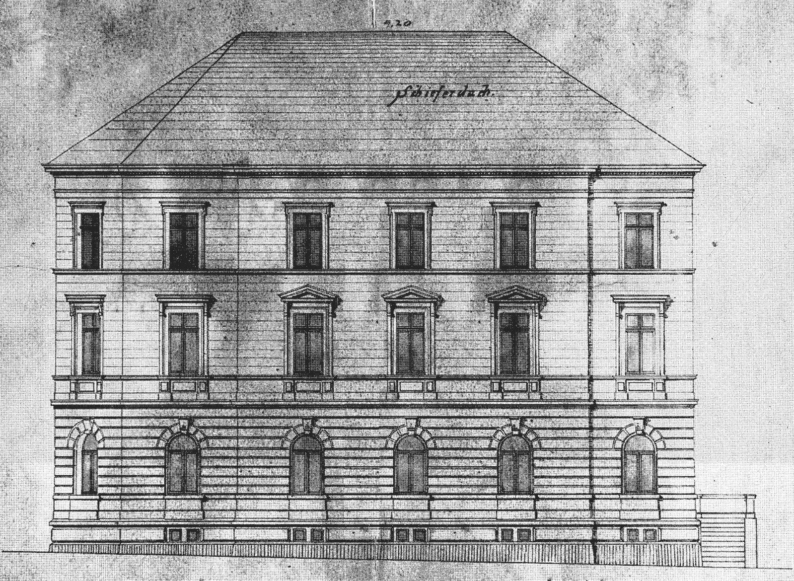 s.o.